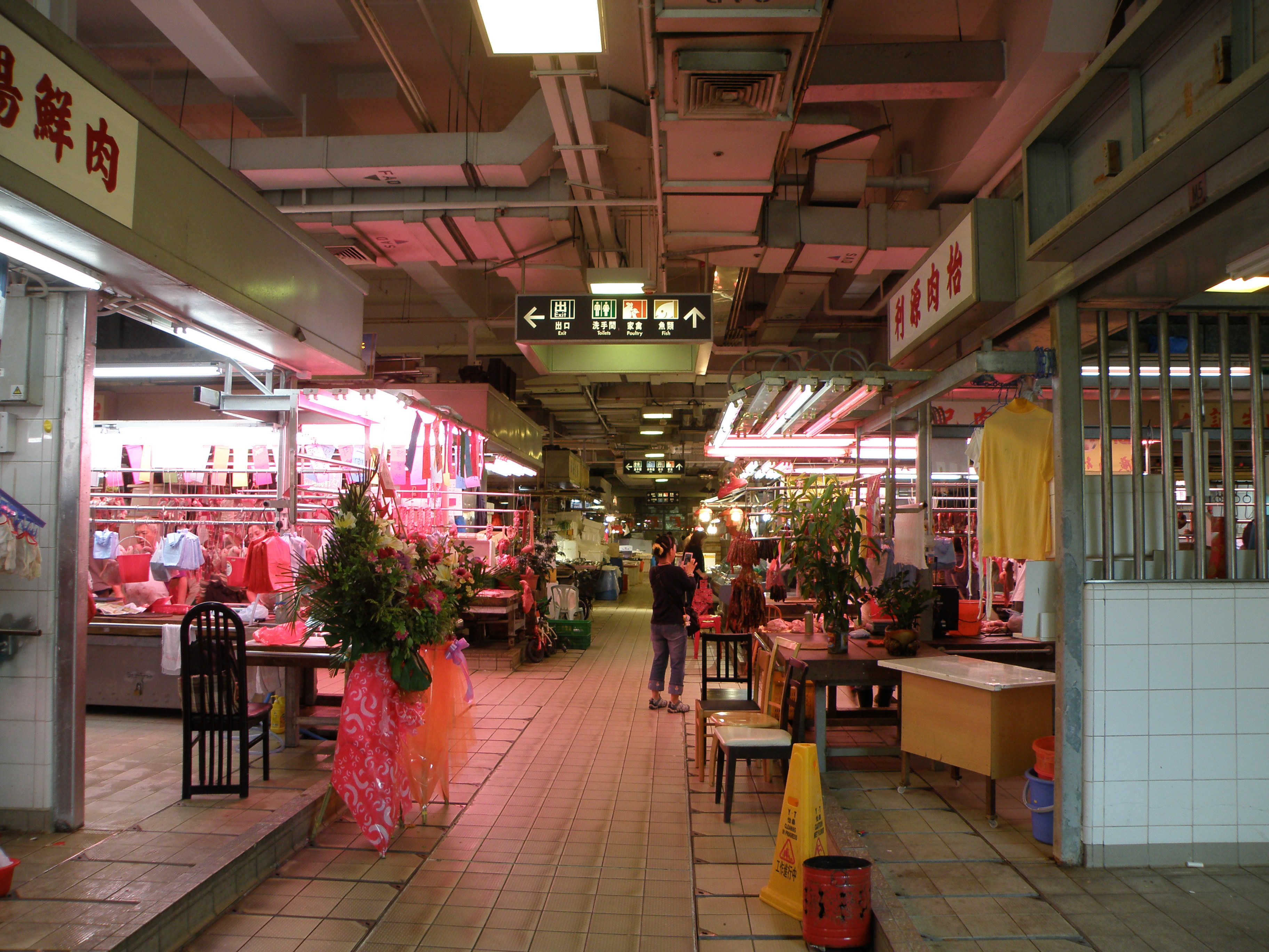 Luen Wo Hui Market in North District, Hong Kong.